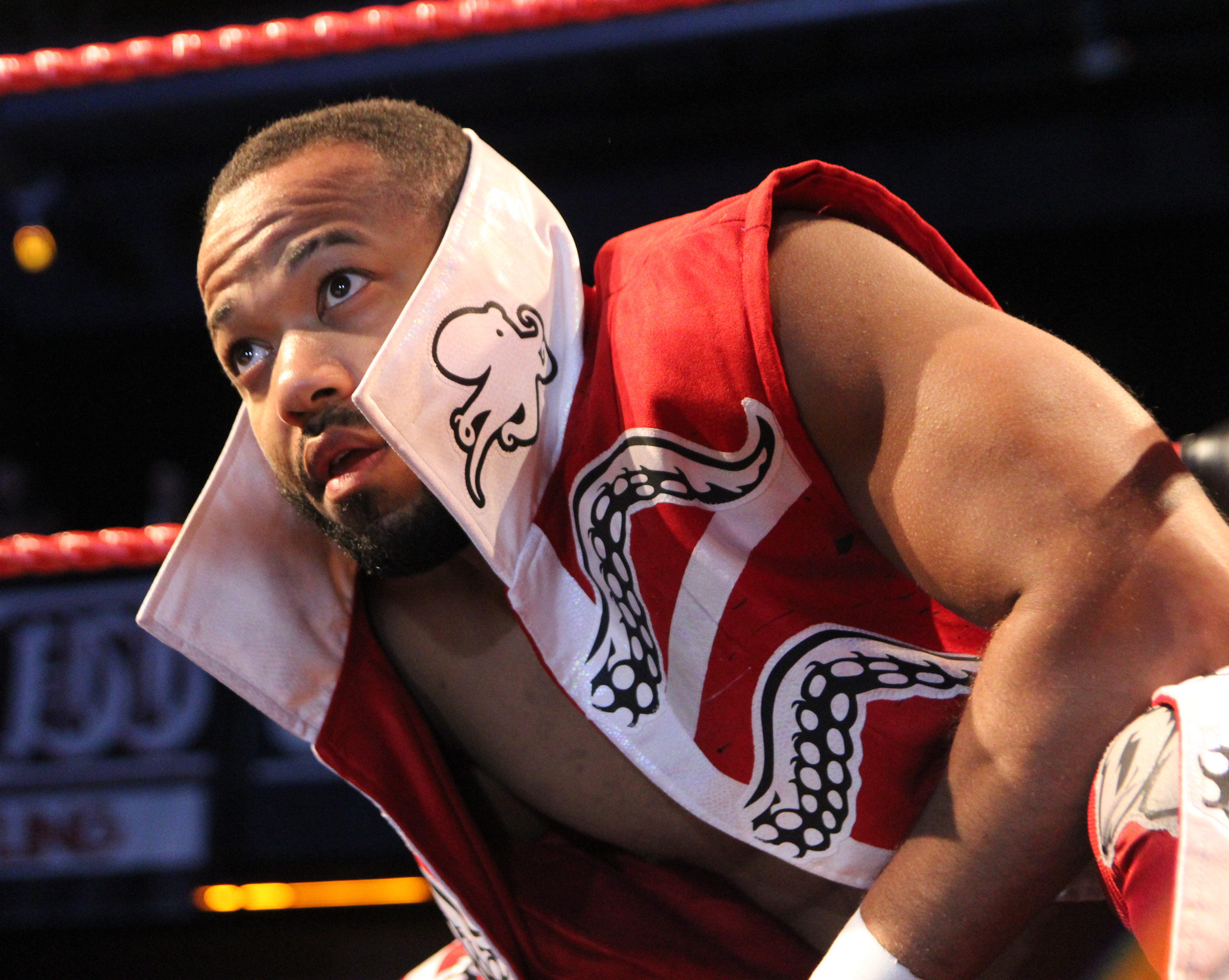 World TagTeam Festival 2019 - Night 3